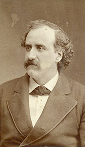 Charles G. Williams portrait from the Collection of the U.S. House of Representatives